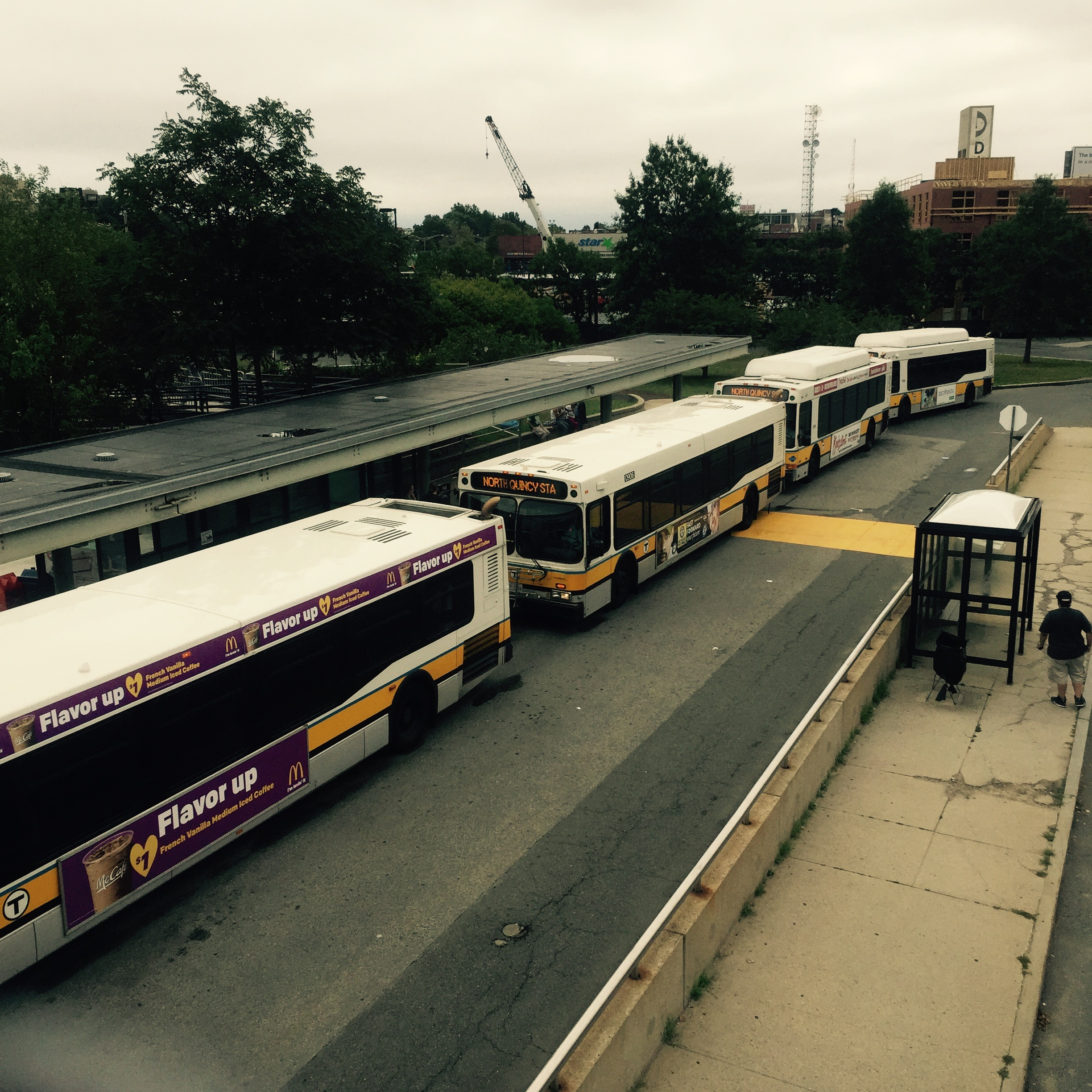 MBTA buses operate as a "bus bridge" from JFK/UMass station to North Quincy station. On a number of weekends in 2015, sections of the Orange and Red lines were closed as MBTA work crews replaced sections of third rail with newer heated rail, and added heaters to switches. The work was initiated after a number of lines were overwhelmed by snow during heavy storms in early 2015.